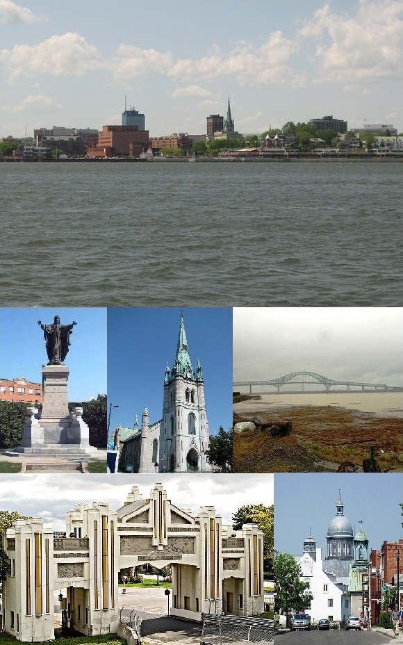 Trois-Rivières, Quebec